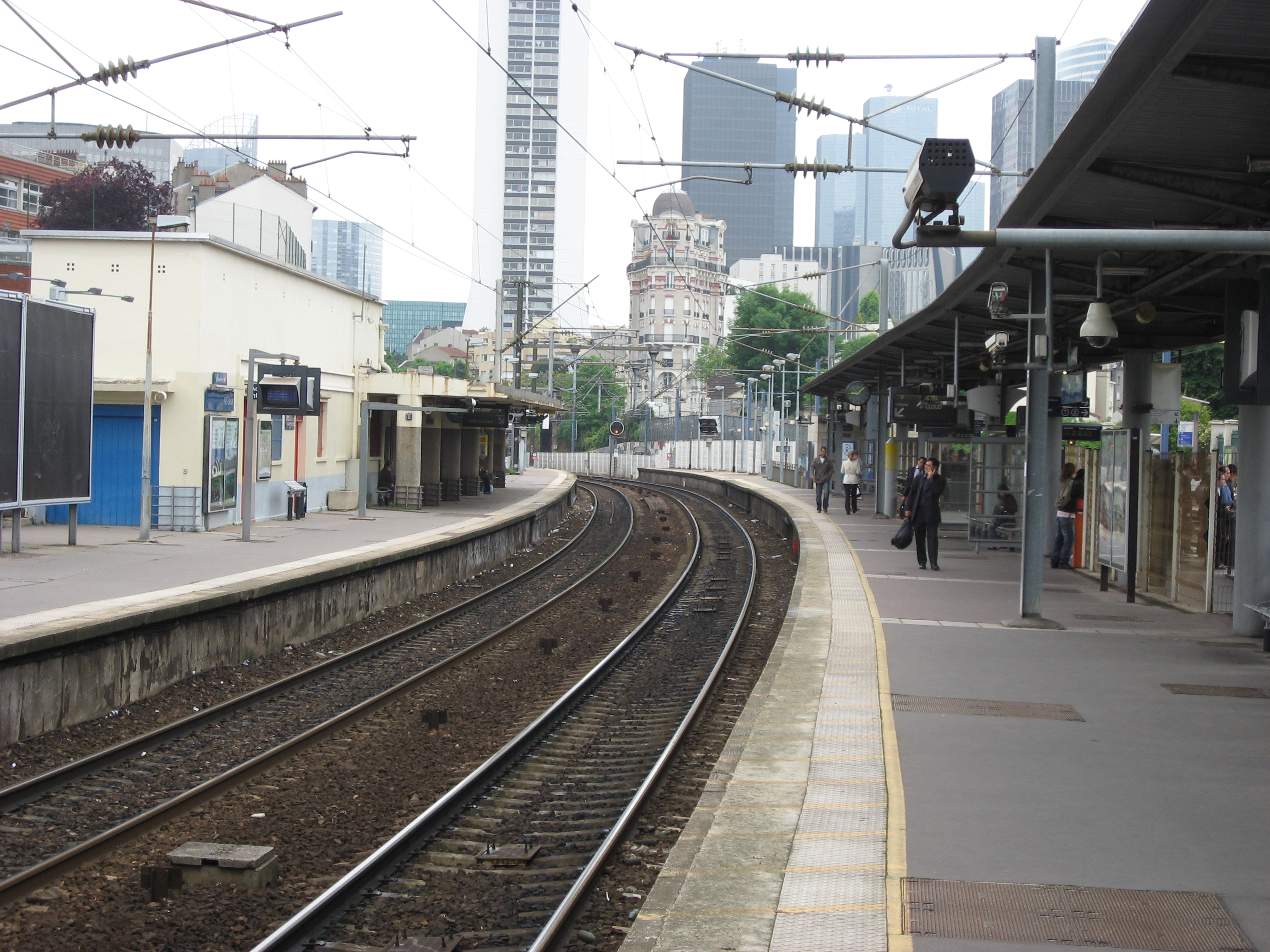 Train Platform of the Gare de Puteaux with La Défense in background.